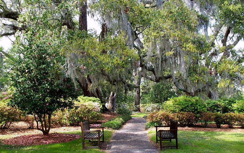 The gardens and benches at Orton Plantation, Smithville Township, Brunswick County, North Carolina, USA.